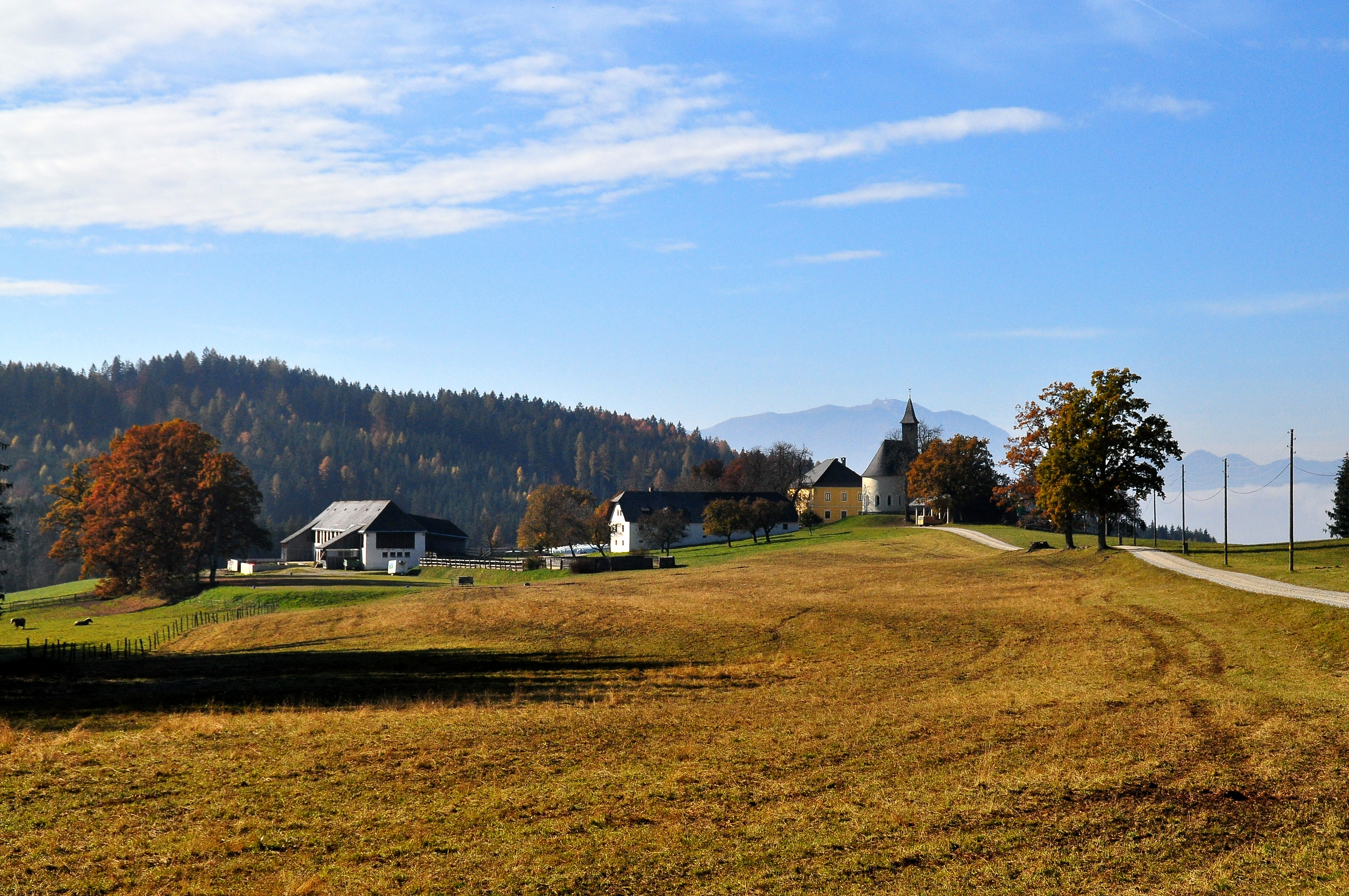 Pastures and the hamlet Tauern in the municipality Ossiach, district Feldkirchen, Carinthia, Austria